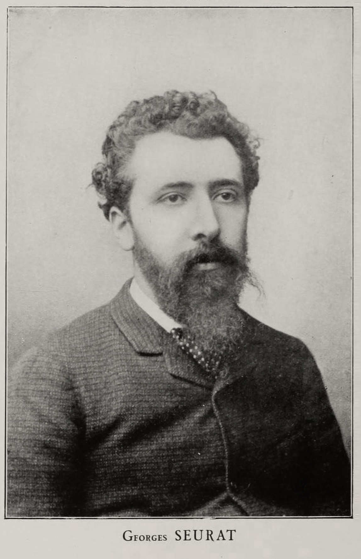 Georges Seurat (1859-1891), photo